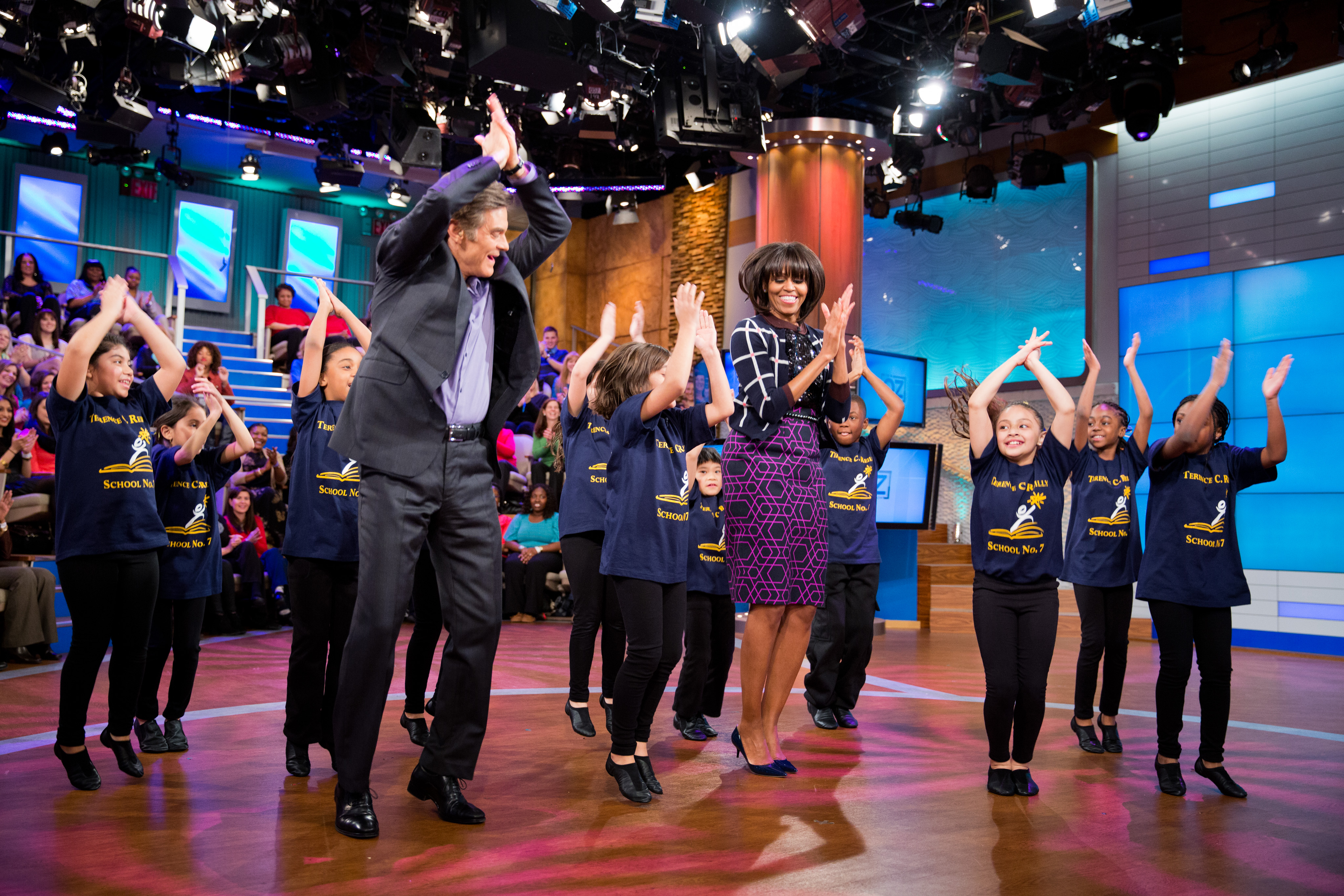 First Lady Michelle Obama and Dr. Mehmet Oz learn a dance routine with members of the Terence C. Reilly School No. 7 dance group during a taping of the “Dr. Oz Show” at the 30 Rock Studios in New York, N.Y., Feb. 22, 2013. (Official White House Photo by Chuck Kennedy)